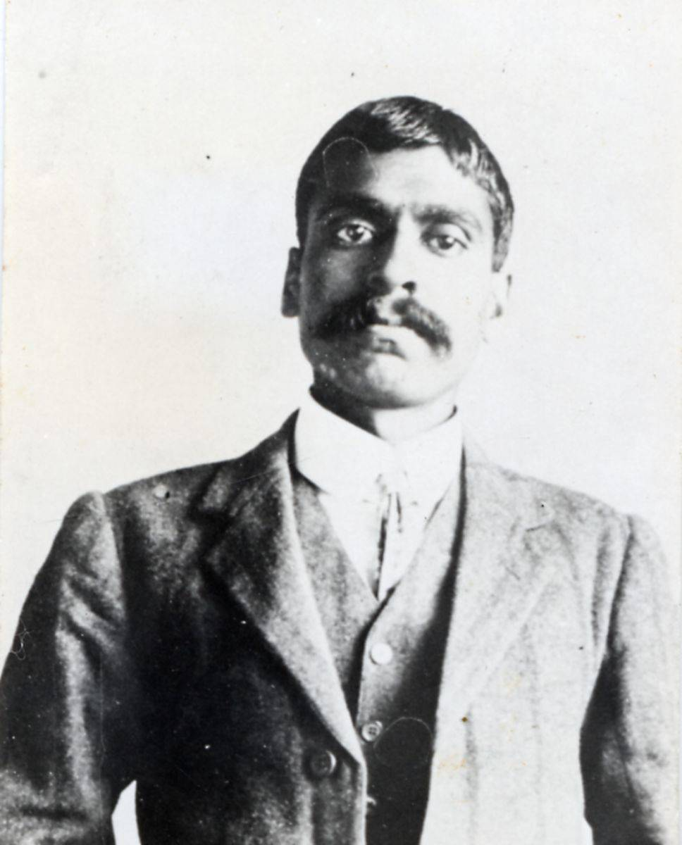 Bhaktivinoda Thakur as a student ca. 1858